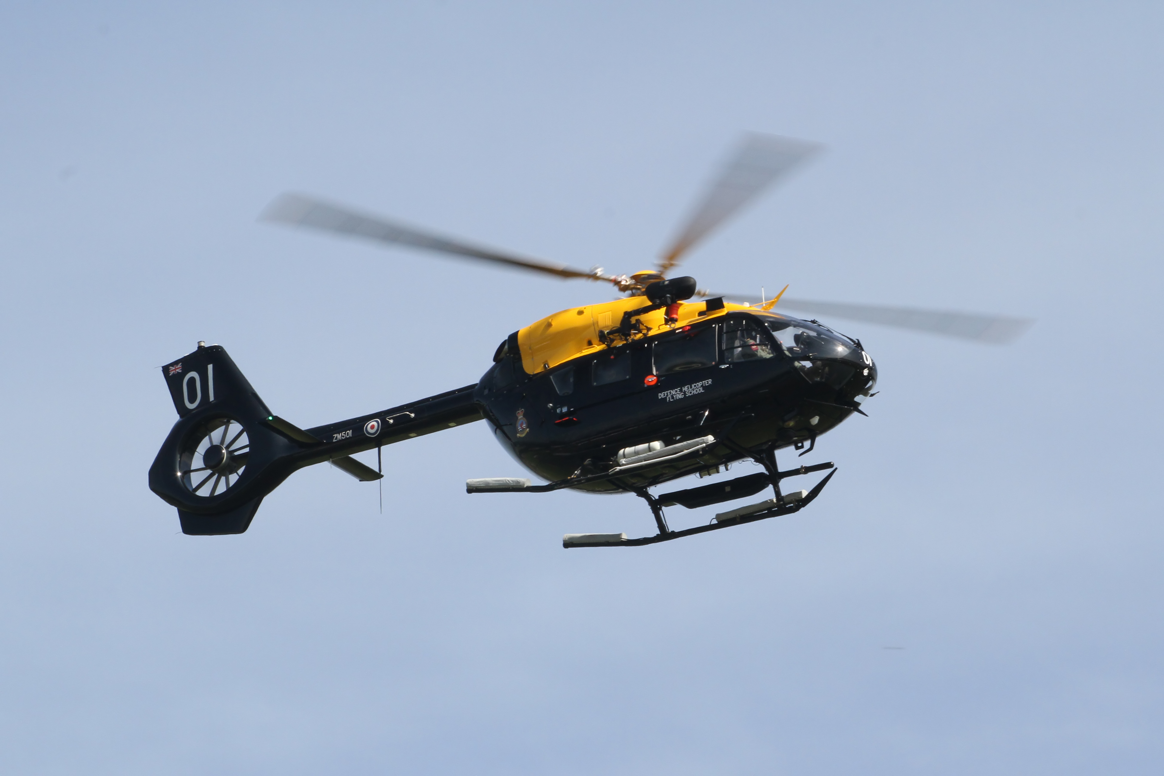 Airbus Helicopters H145 Jupiter